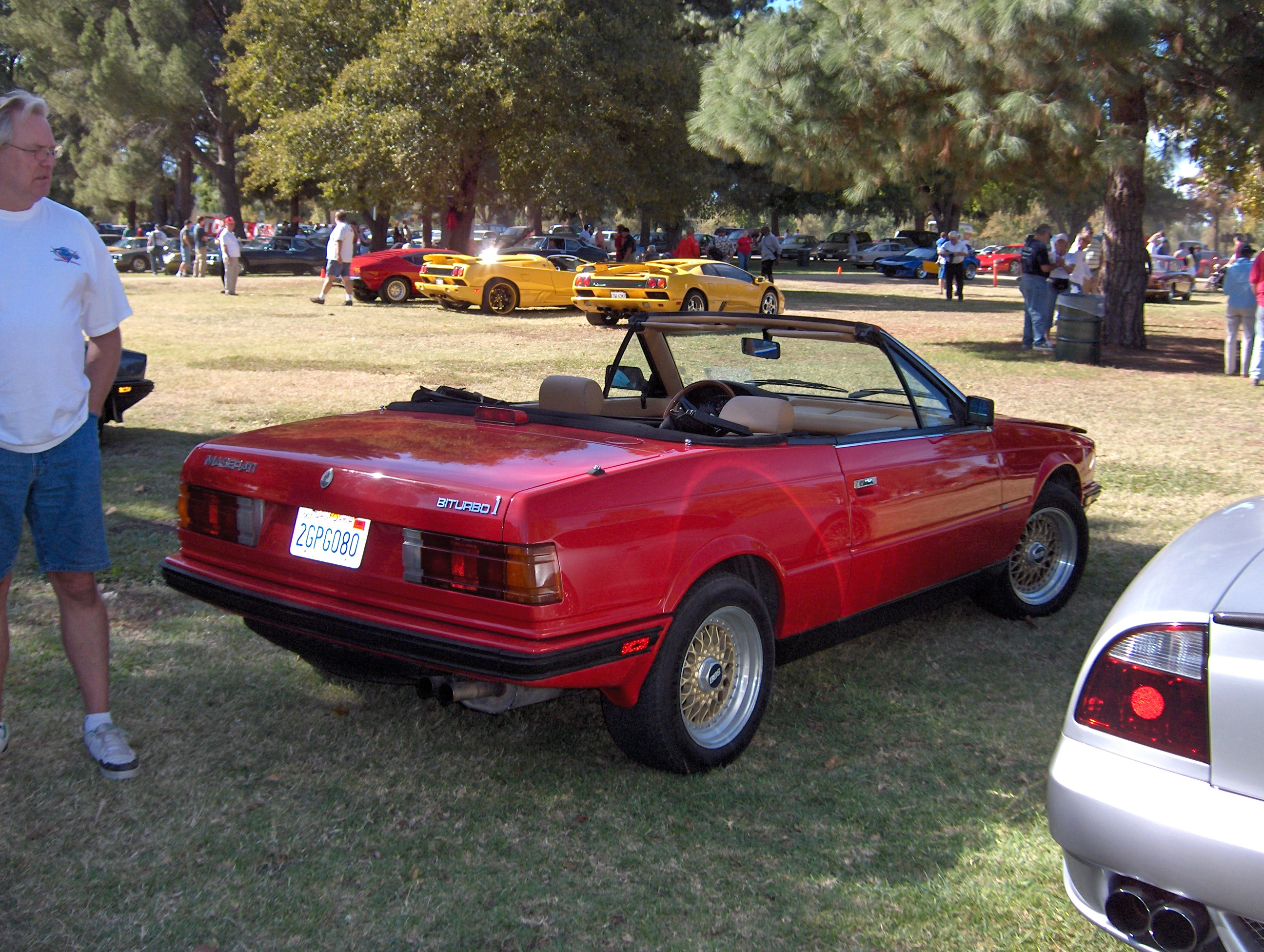 Own work - public location.